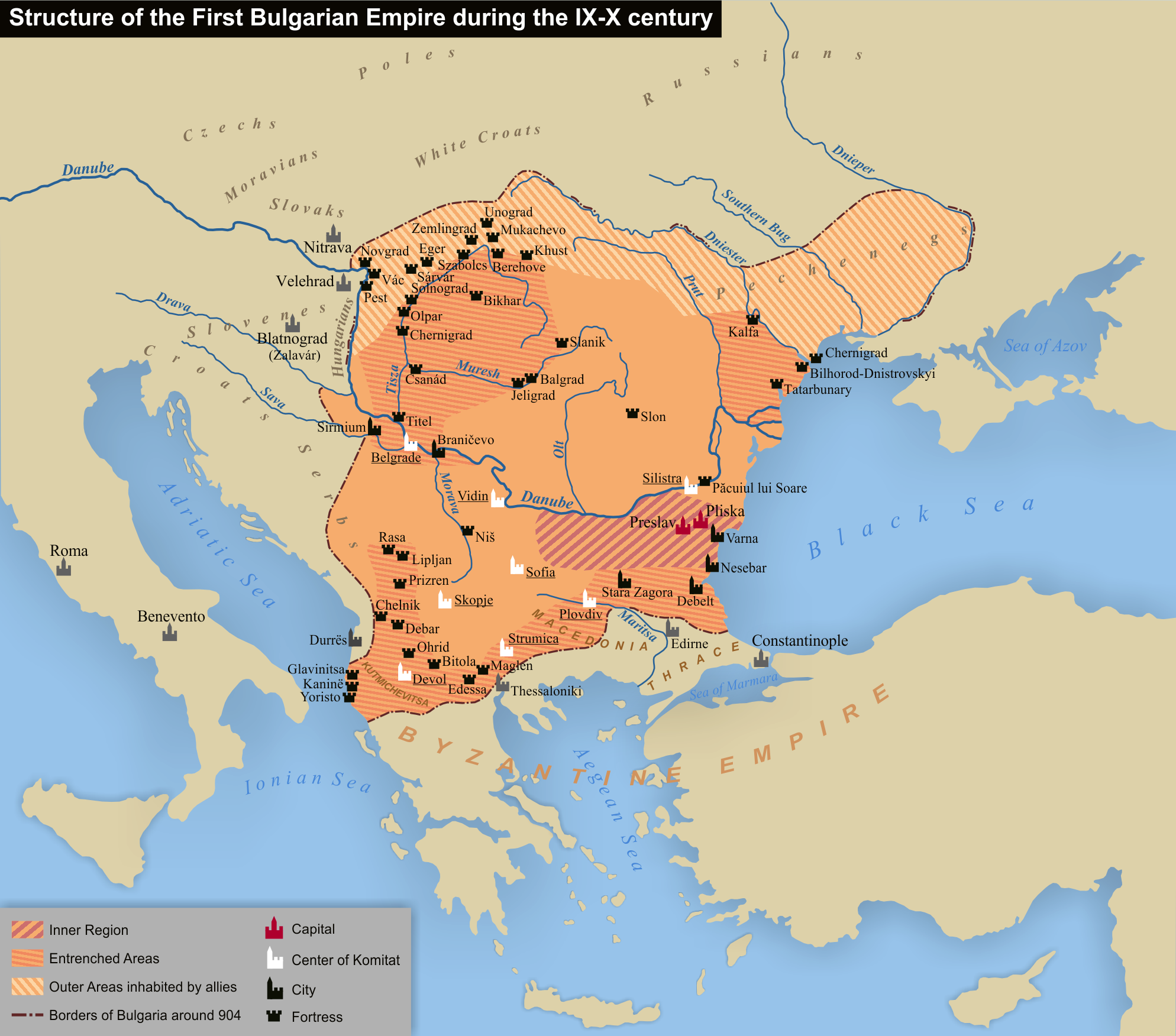 Structure of the First Bulgarian Empire during the IX-X century. Основана на карта №2 "Схема за структурата на българската държава през IX-X в." в книгата "Политическа география на средновековната българска държава. Част I. От 681 до 1018 г.", Петър Коледаров, София, 1979 г., Издателство на Българска Академия на науките. [1]